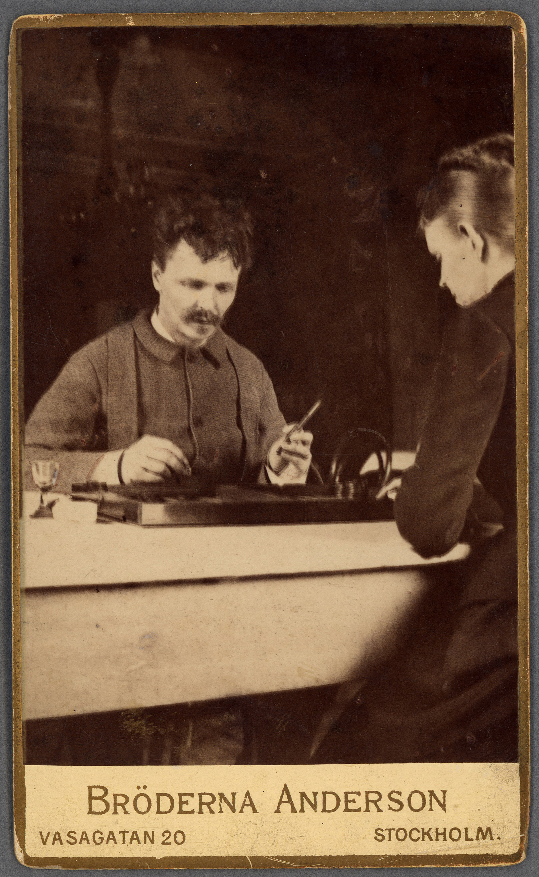 Self-portrait of Swedish author August Strindberg with his wife Siri von Essen in Gersau, Switzerland. Date: 1886 Photographer: August Strindberg Part Of: National Library of Sweden, Collection of Manuscripts, Strindbergsrummet